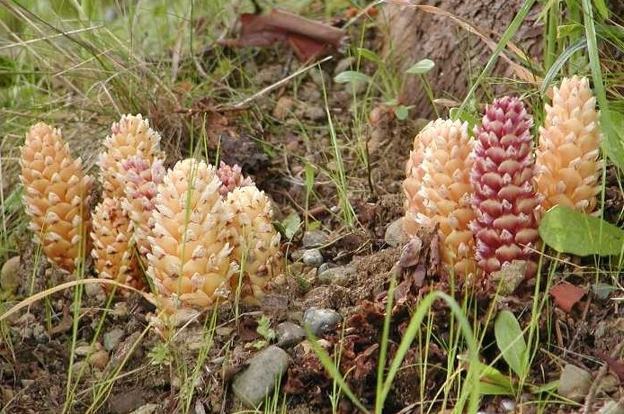 Boschniakia hookeri This image is not copyrighted and may be freely used for any purpose. Please credit the artist, original publication if applicable, and the USDA-NRCS PLANTS Database. The following format is suggested and will be appreciated: Dave Cole @ USDA-NRCS PLANTS Database